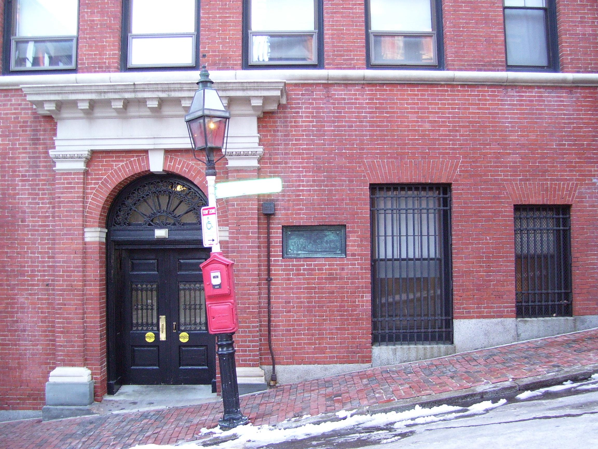 This is a picture I took of Sumner's birthplace on Irving Street in Boston in January 2008.